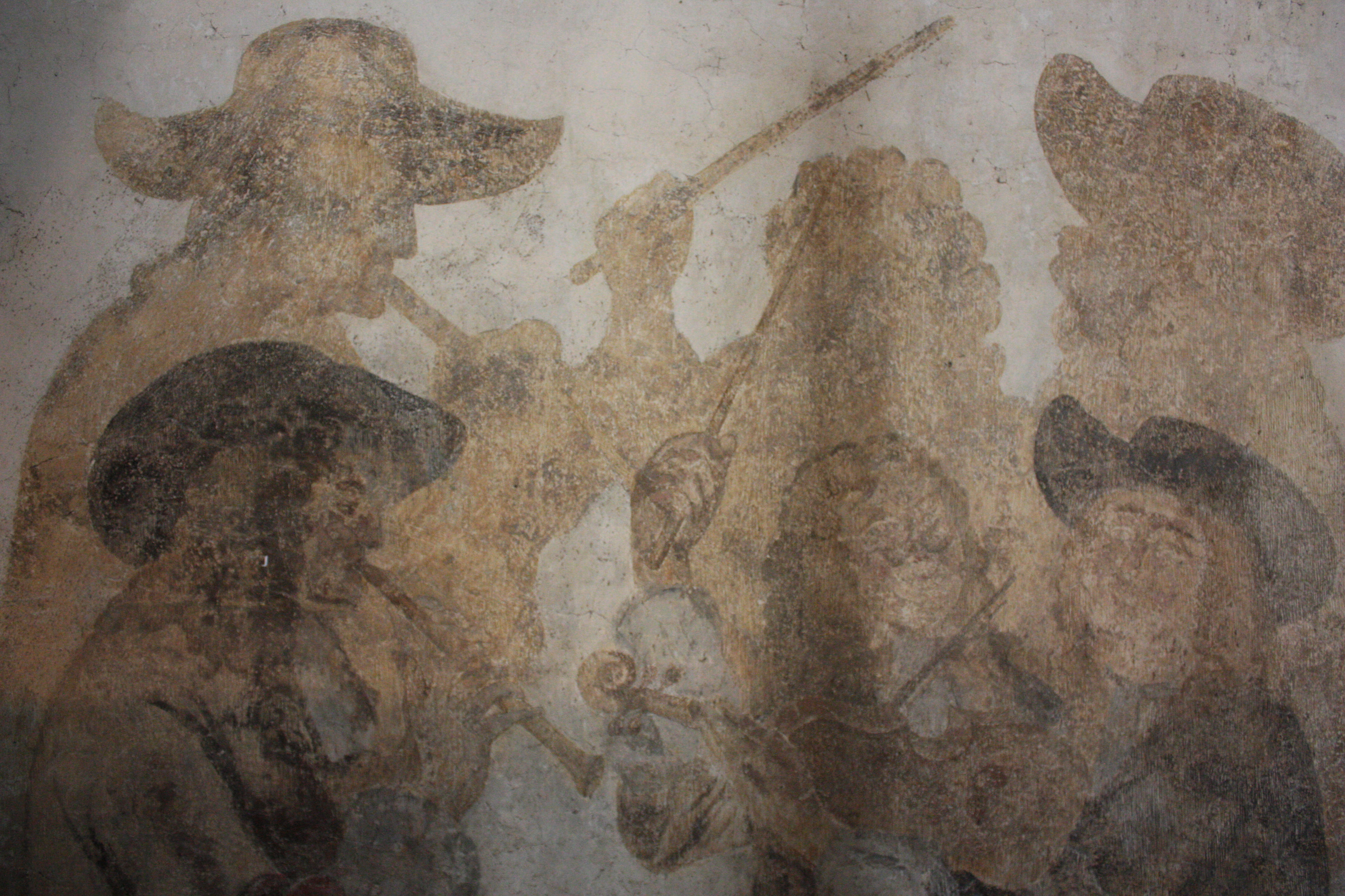 Fresco behind Hinsz organ in Kampen, Bovenkerk